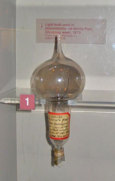 Thomas Edison's first lightbulb which was used in a demonstration at Menlo Park...